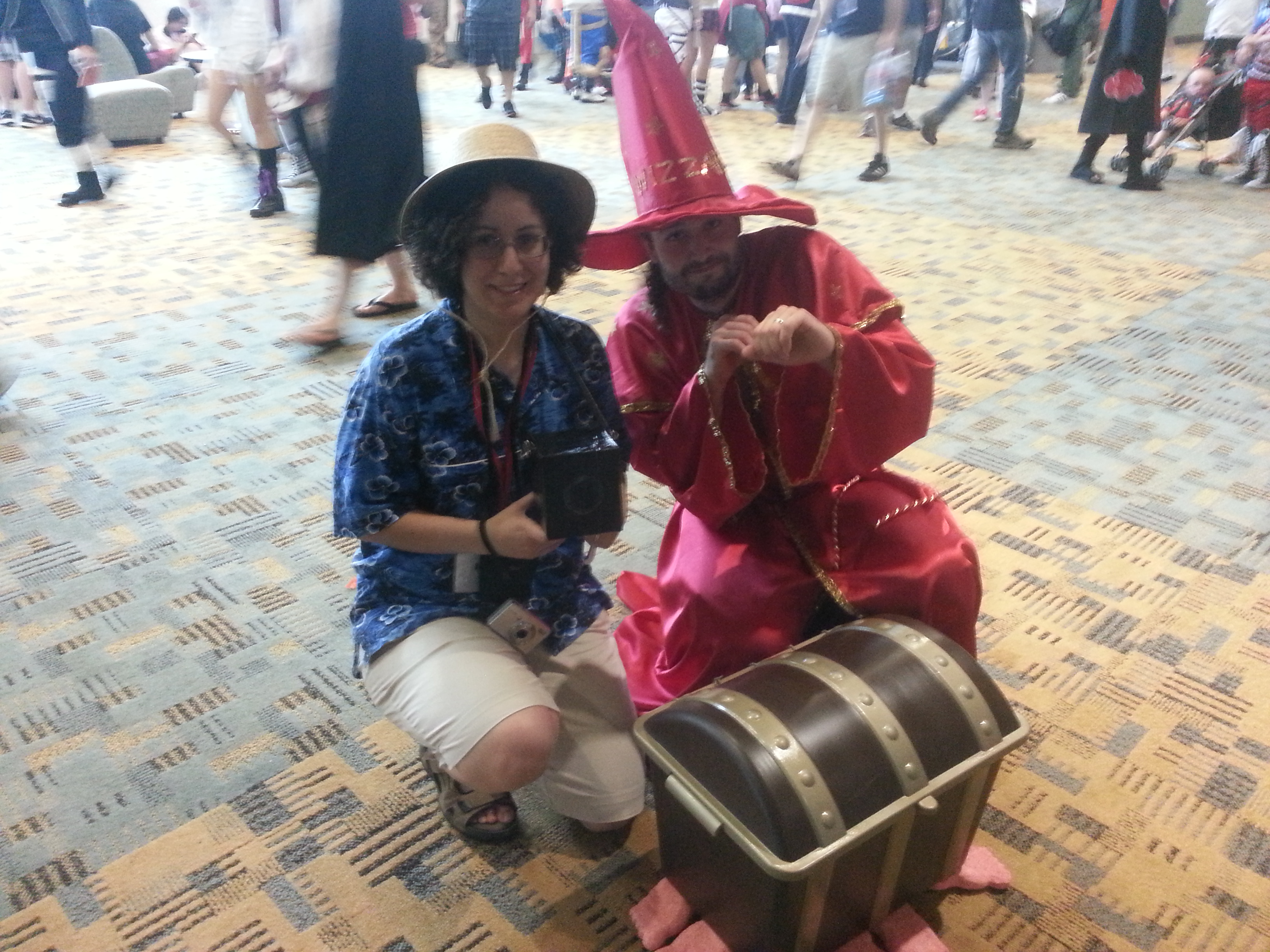 Rincewind and Twoflower on a road somewhere, perhaps not in Ankh-Morpork.